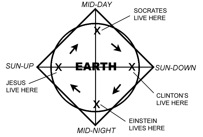 Diagram of Gene Ray's "Time Cube" concept, based on